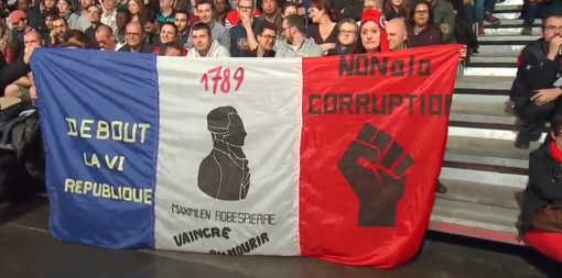 Non a la corruption